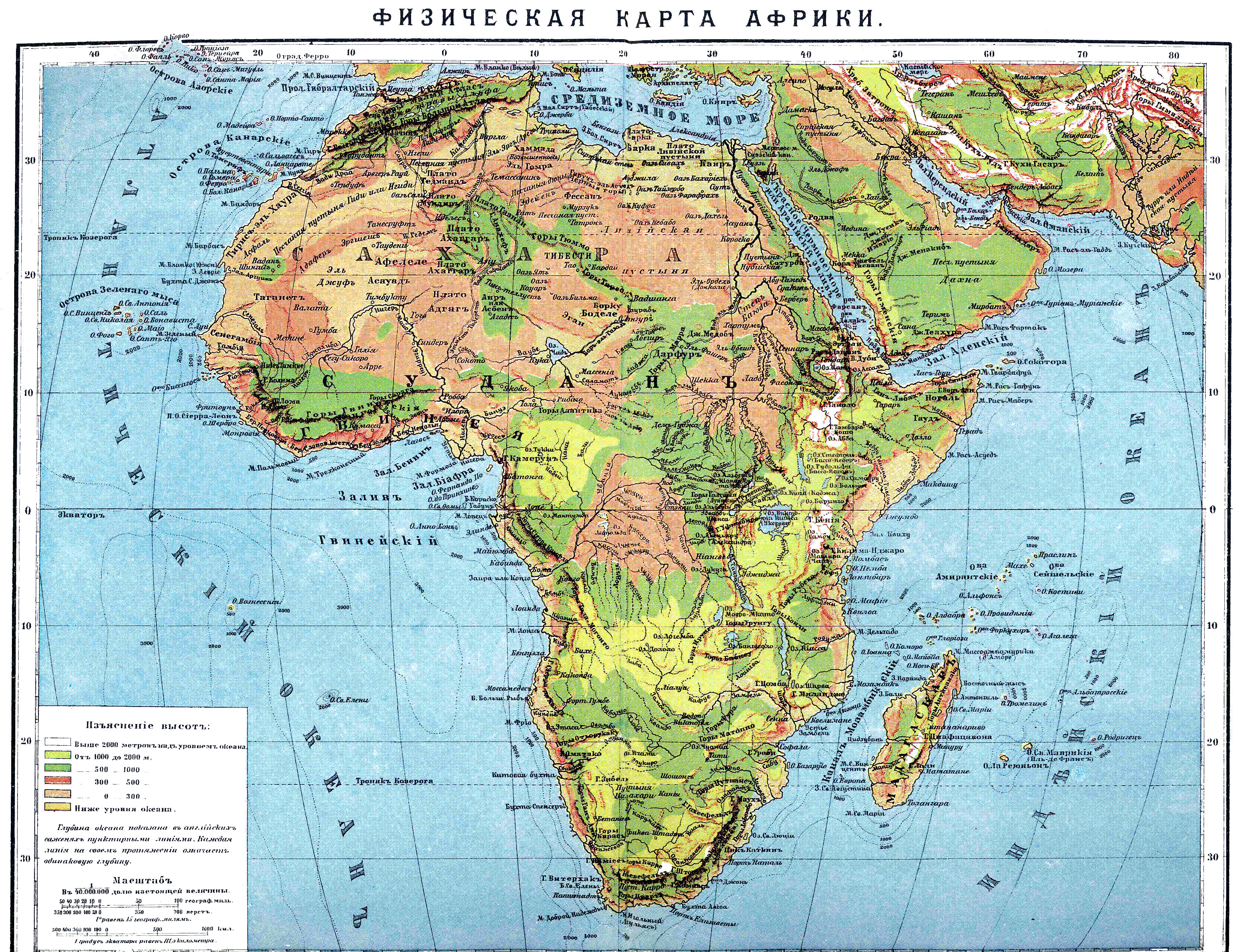 Illustration from Brockhaus and Efron Encyclopedic Dictionary (1890—1907)